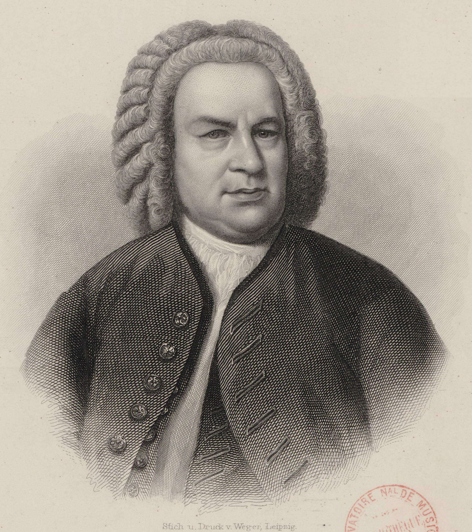 Nineteenth century engraving of portrait of Johann Sebastian Bach by August Weger (1823-1892) of Leizig. Bibliotheque du Conservatoire de Musique, Paris, France.